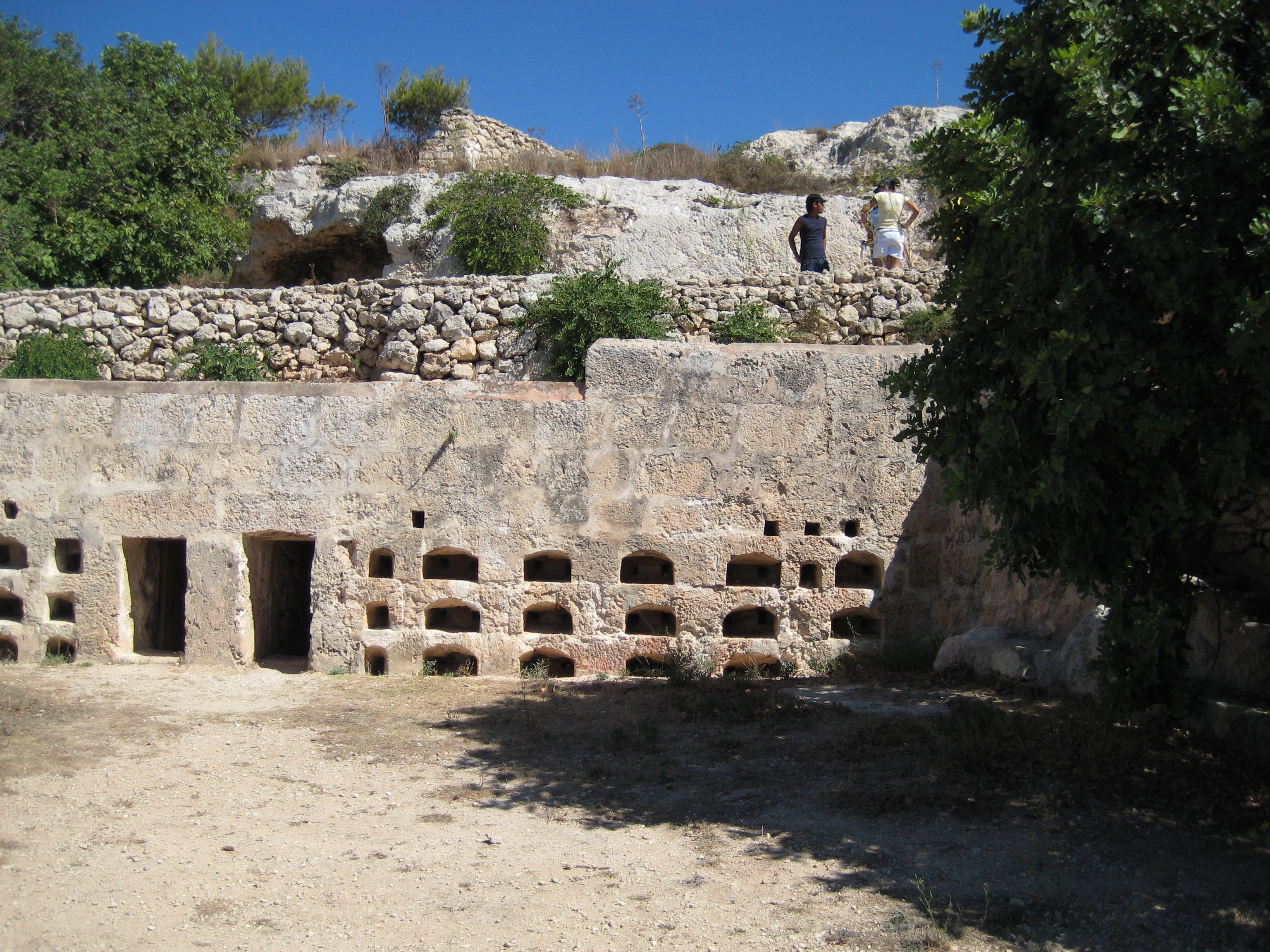 Roman beehives above Xemxiabay at Malta